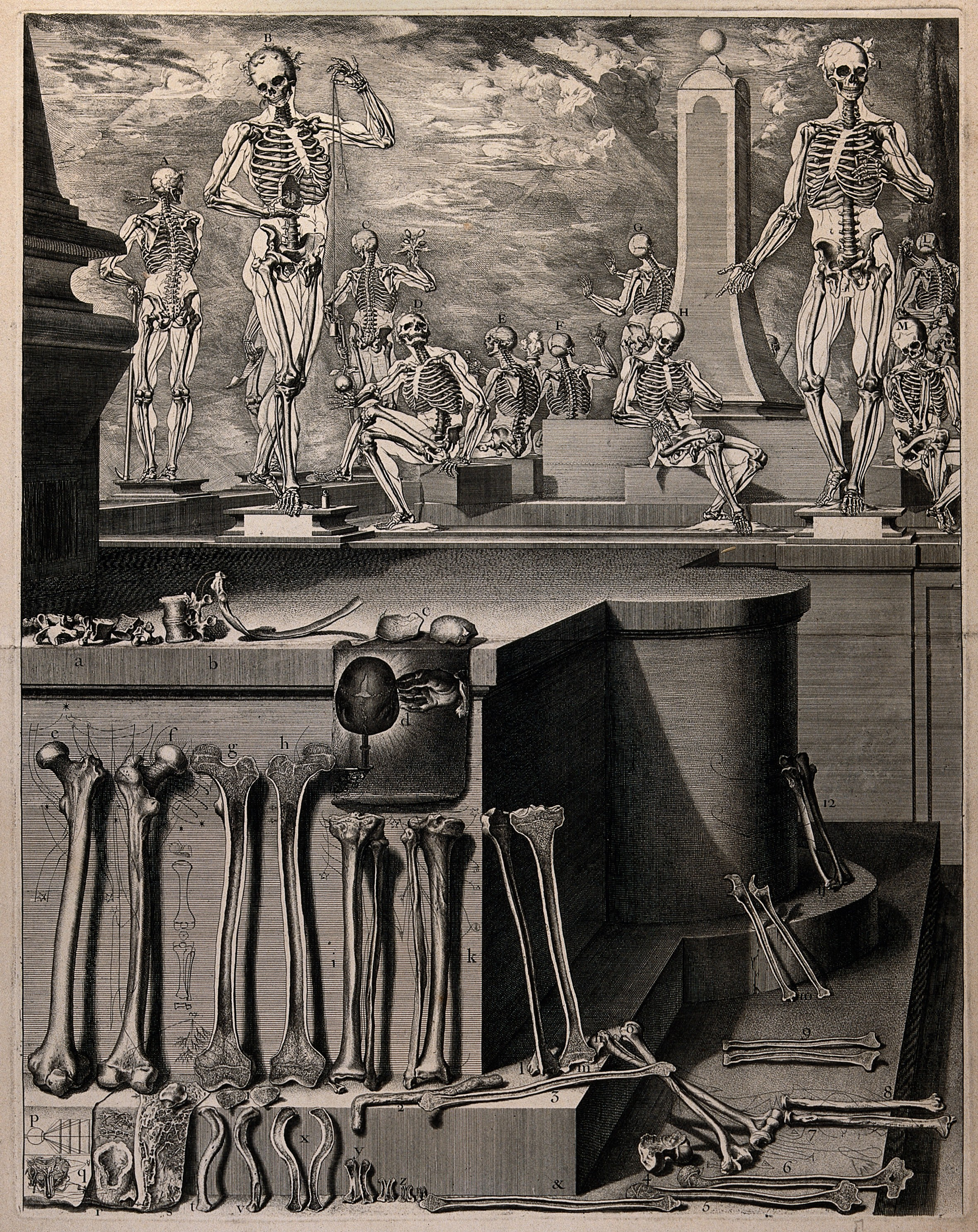 Human bones in the foreground; skeletons in the background. Engraving after C. Martinez, ca. 1680 (?). Iconographic Collections Keywords: Crisóstomo Martínez